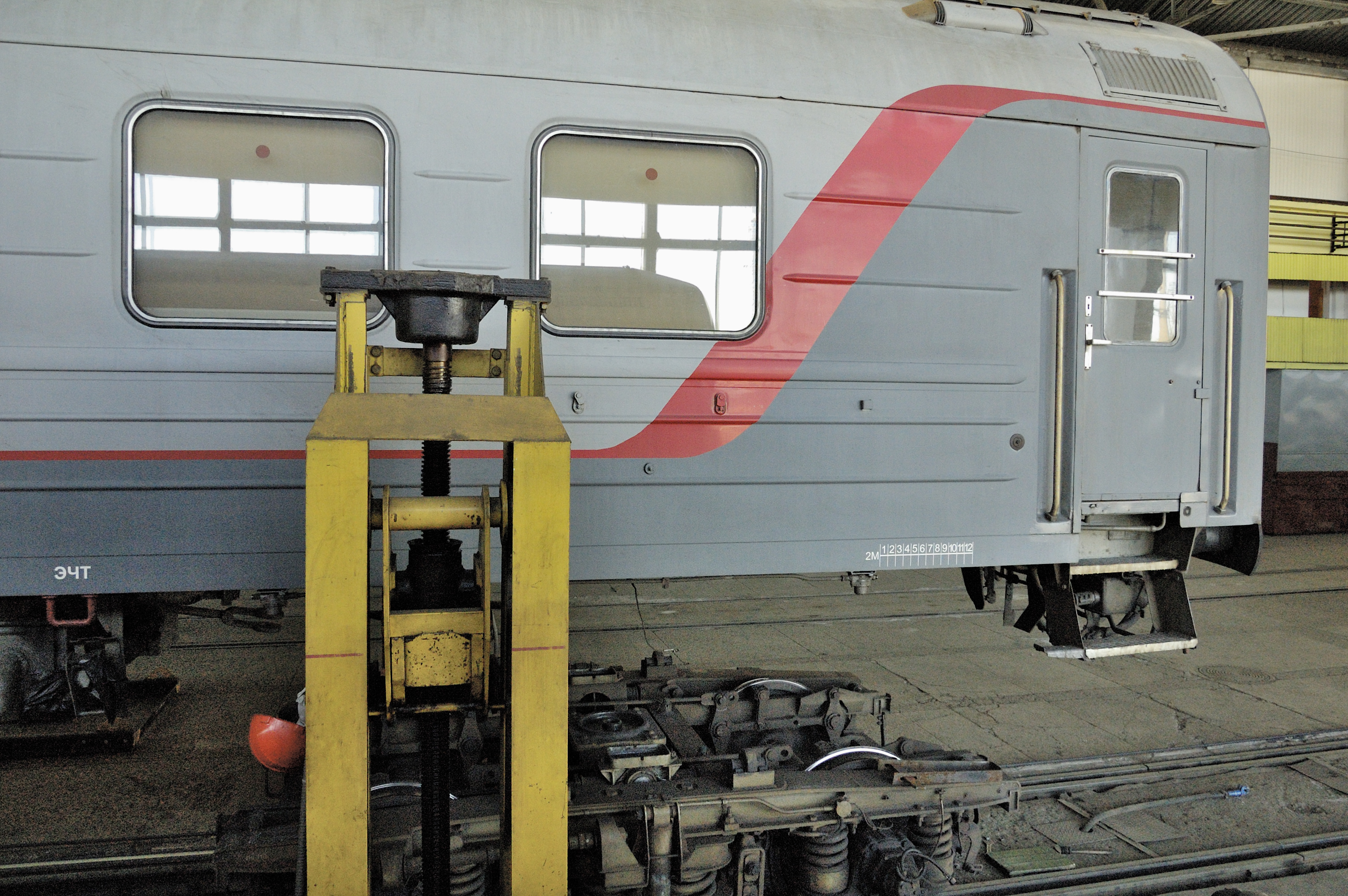 Gauge changing in Brest, Belarus